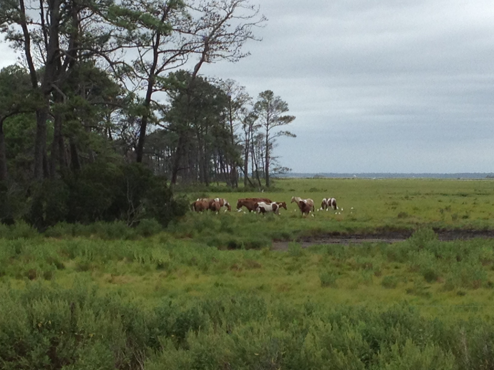 Wild Ponies at Chincoteague National Wildlife Refuge in Virginia, United States. Picture taken from Beach Access Road